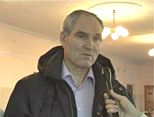 Alexander Pushnitsa (2013) - the most titled sambist in history of Sambo, Merited Master of Sports of the USSR (1980), nine-time champion of the USSR (1974 - 1980, 1983, 1984), two-time European champion (1976, 1984) and three-time winner of the world championships (1974, 1979, 1983).